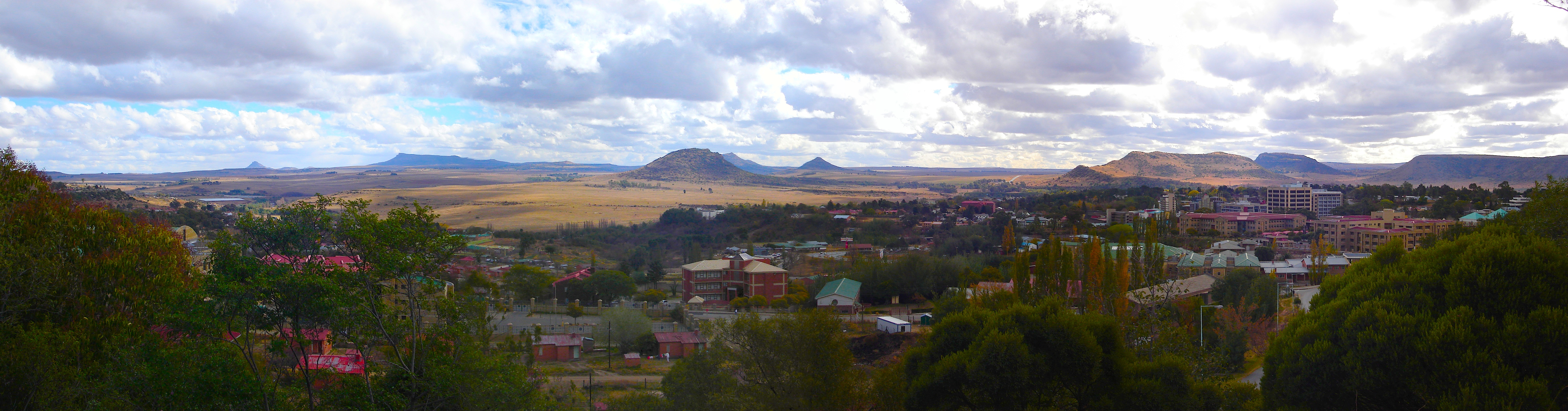 This is a picture from Maseru, Lesotho, looking towards its border with South Africa. On the right you can see downtown Maseru.